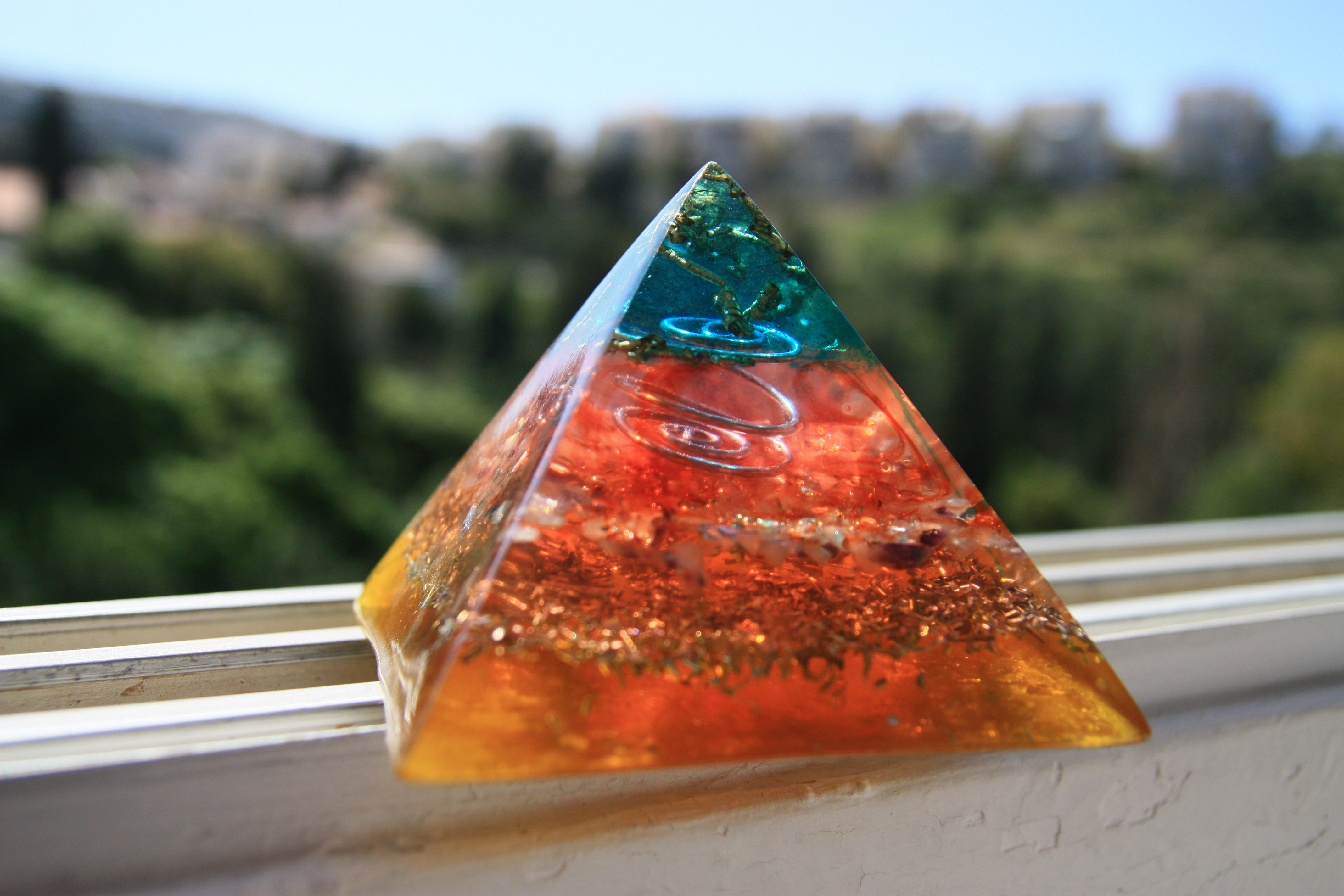 Colorful pyramid, against the backdrop of mountains and the houses of Haifa, Israel